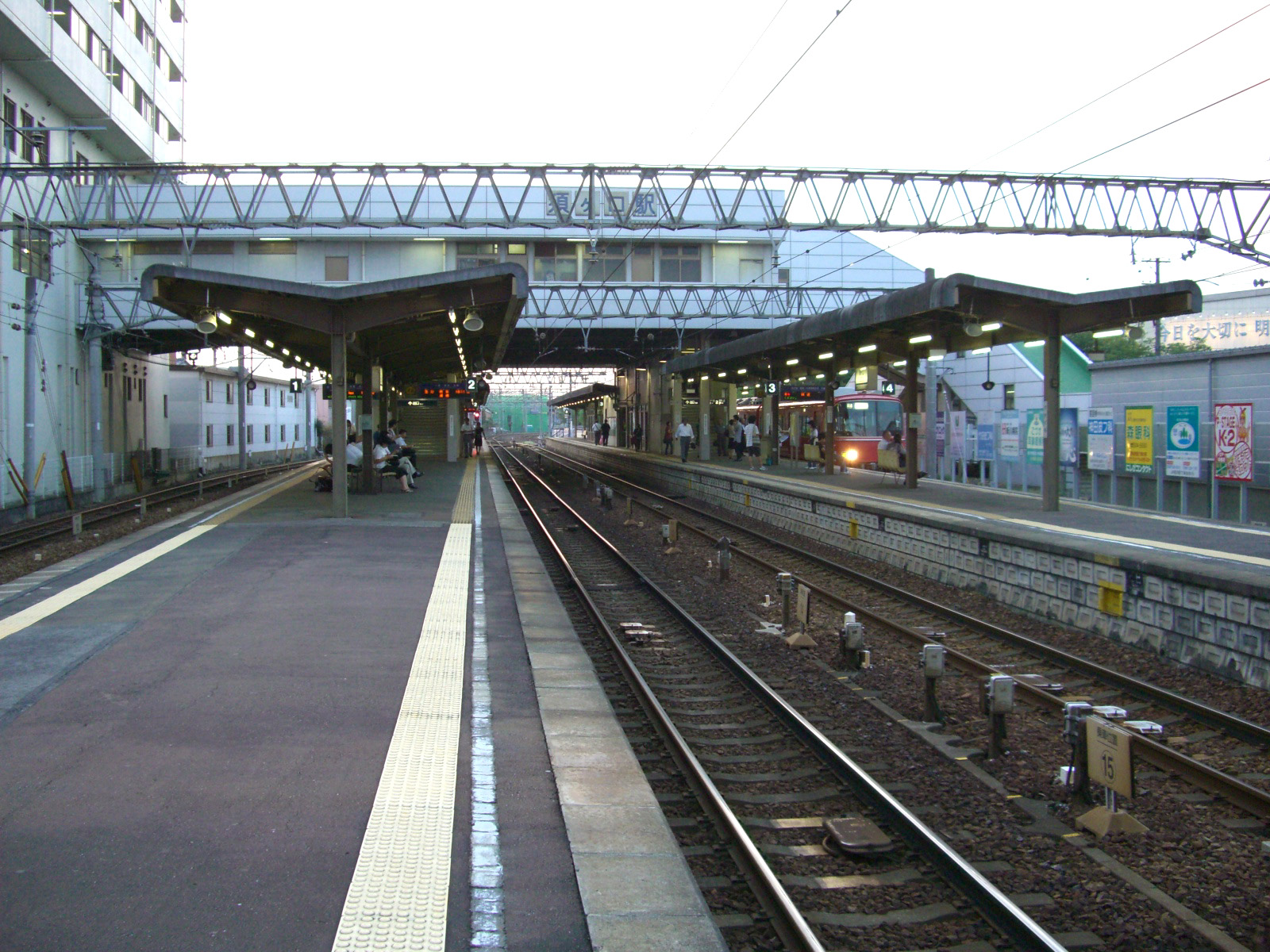 Nagoya Railroad Nagoya Main Line & Tsushima Line Sukaguchi Station Platform